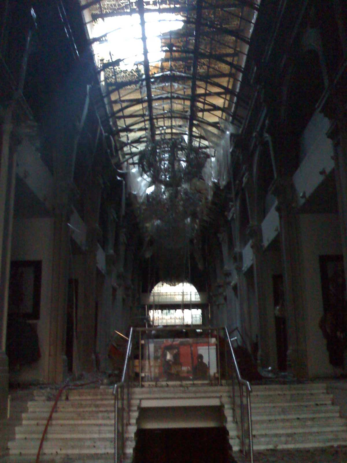 Aftermath of the 2008 Greek riots: destroyed department store in a neoclassical building in central Athens (Sprider Stores, Ermou Street)